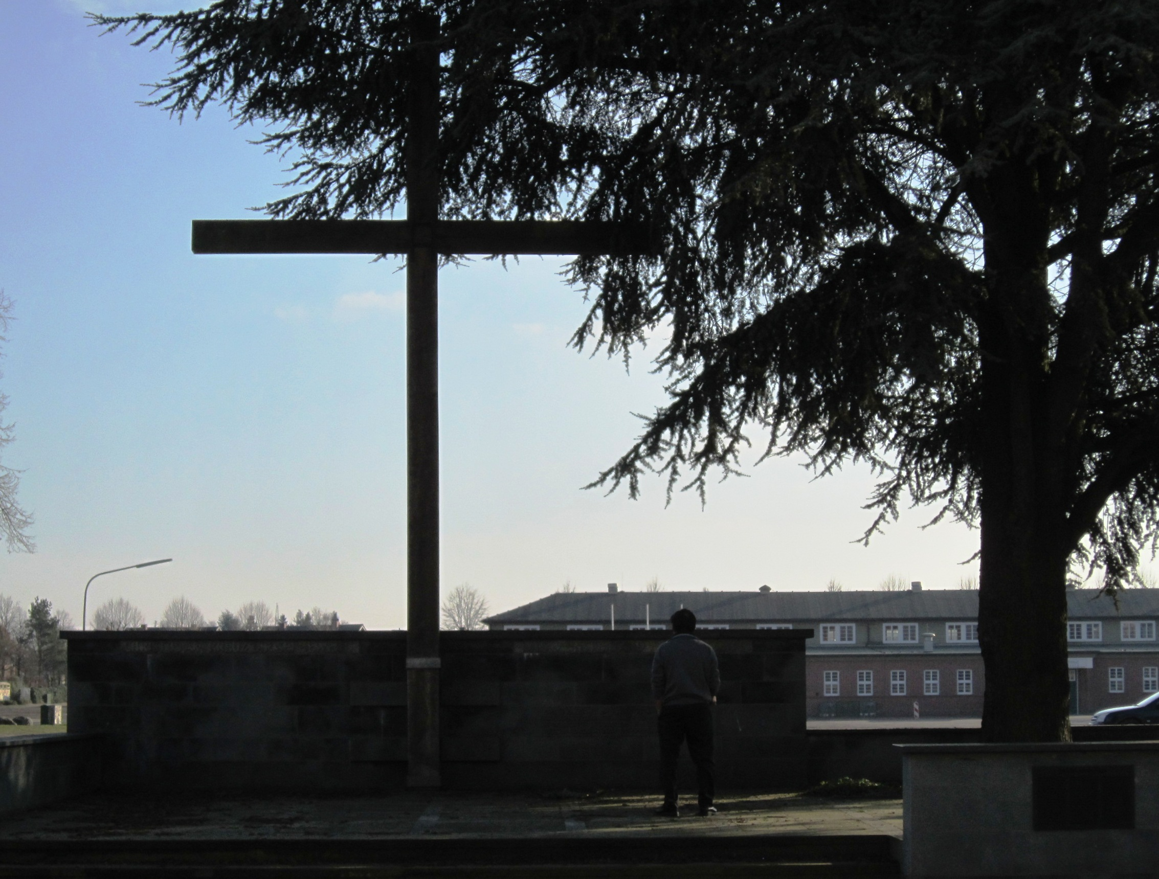 "Kreuzkampf" ("Battle for the cross") Memorial in Cloppenburg (Lower Saxony)